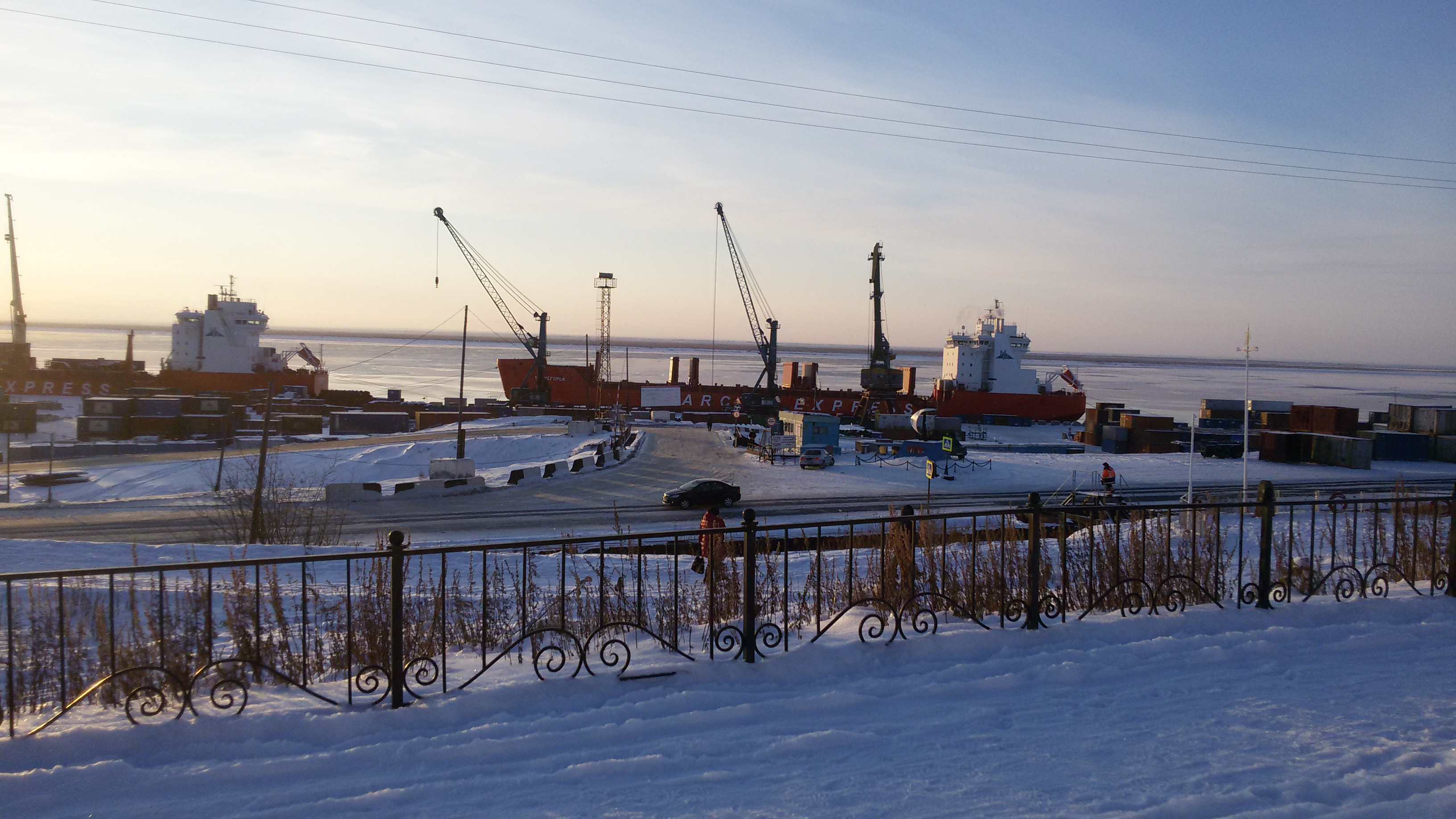 Containder ships Arctic Express in port of Dudinka